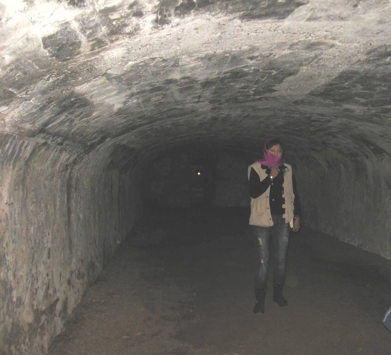 One of the basement arches underneath the former Monastery of Desierto de los Leones. In Desierto de los Leones National Park, in western México, D. F.